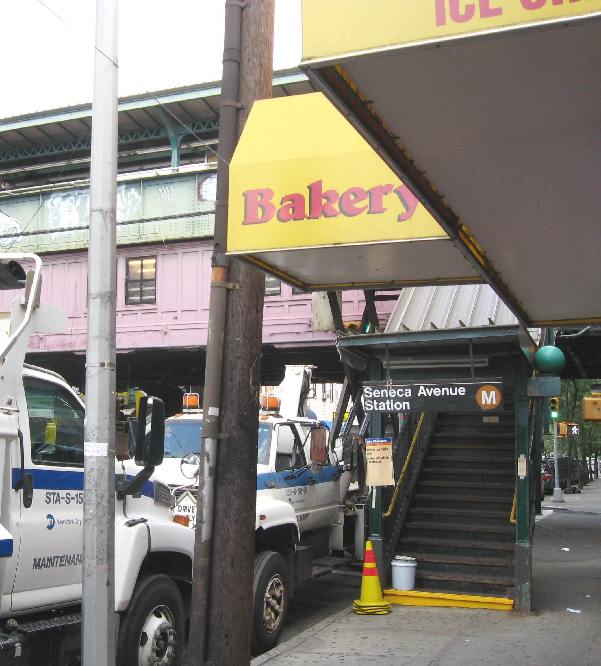 Looking east in Ridgewood at Seneca Avenue (BMT Myrtle Avenue Line) street stair on a late afternoon when the line was out of service